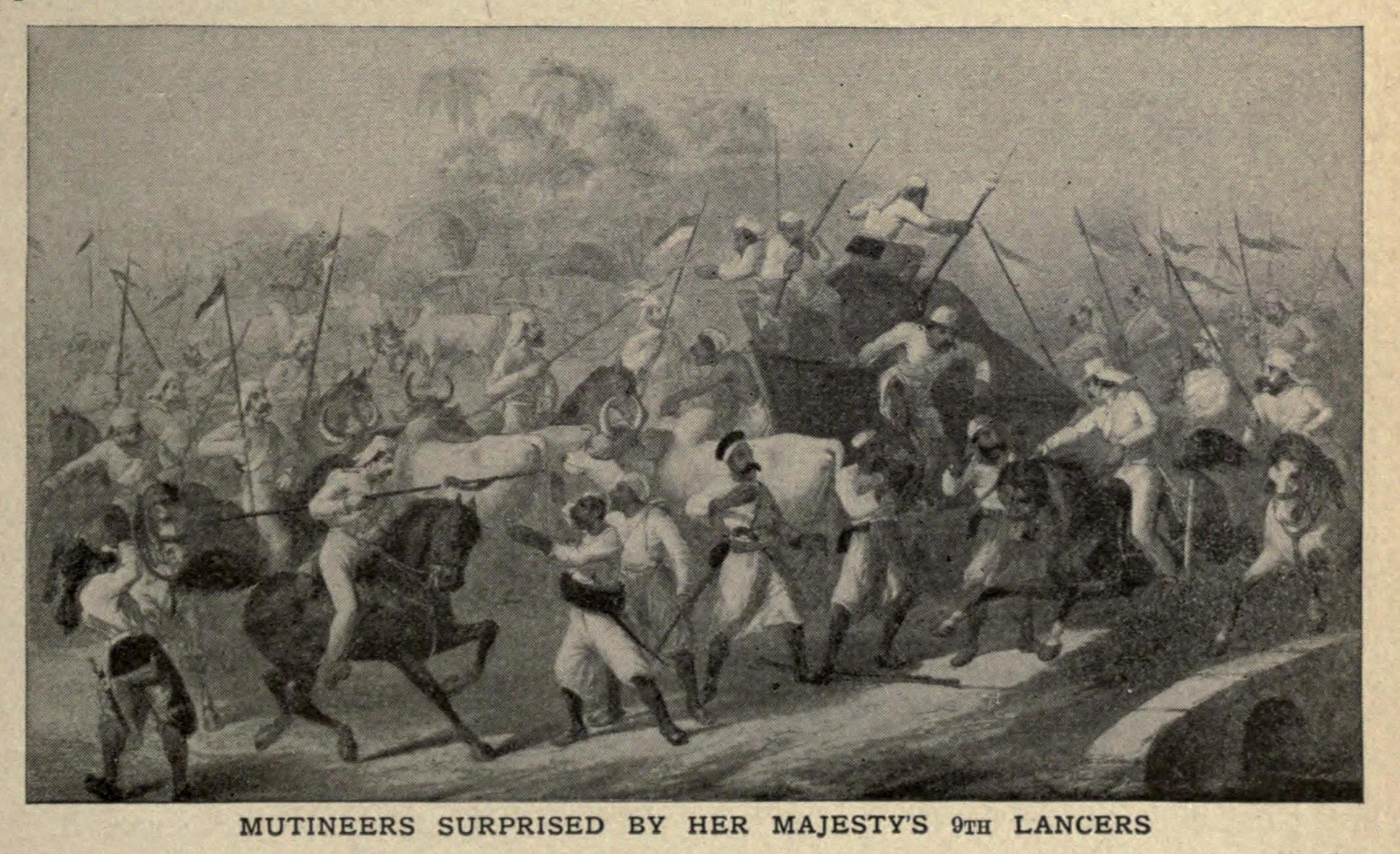 The book of history. A history of all nations from the earliest times to the present, with over 8,000 illustrations ([1915?-21]) Author: Bryce, James Bryce, Viscount, 1838-1922; Thompson, Holland, 1873-1940; Petrie, W. M. Flinders (William Matthew Flinders), Sir, 1853-1942 Volume: 2 Subject: World history Publisher: New York : The Grolier society; London, The Educational book co. Possible copyright status: NOT_IN_COPYRIGHT Language: English Call number: srlf_ucla:LAGE-623290 Digitizing sponsor: MSN Book contributor: University of California Libraries Collection: cdl; americana